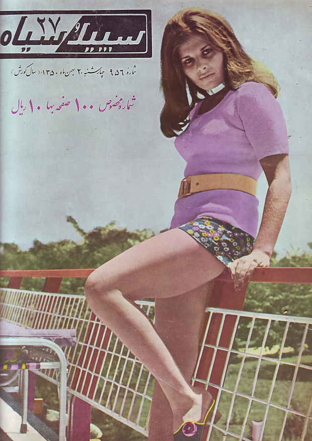 Homa Roosta on the cover of "Siah Sepid" magazine, Feb.1972.